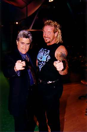 1998 - Diamond Dallas Page with Jay Leno.